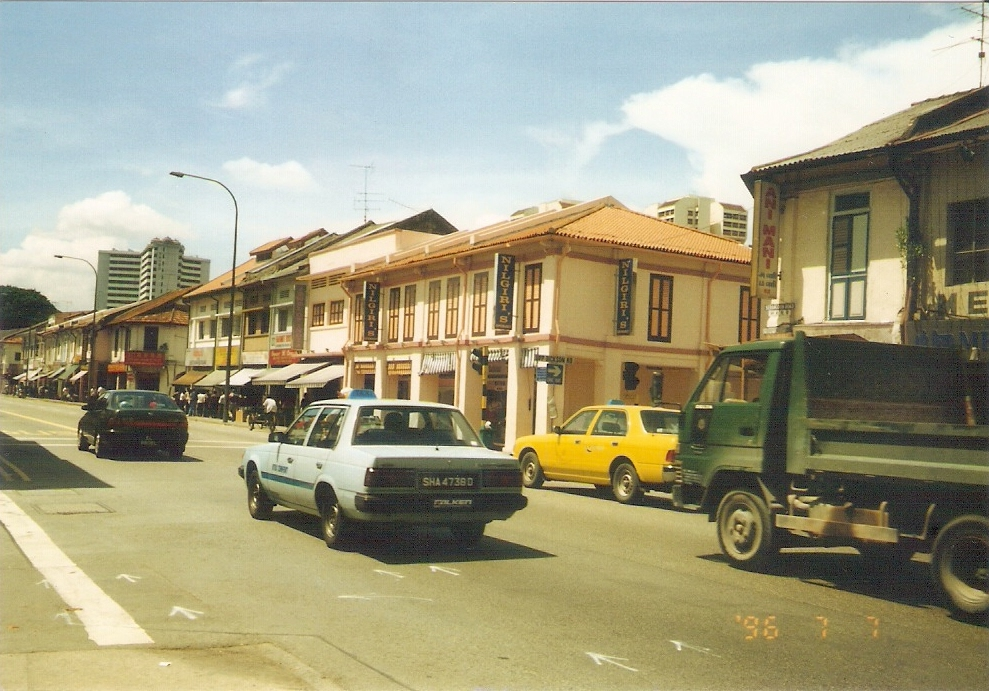 Nilgiri's convenience store at the junction of Serangoon Road and Upper Dickson Road, in Singapore.